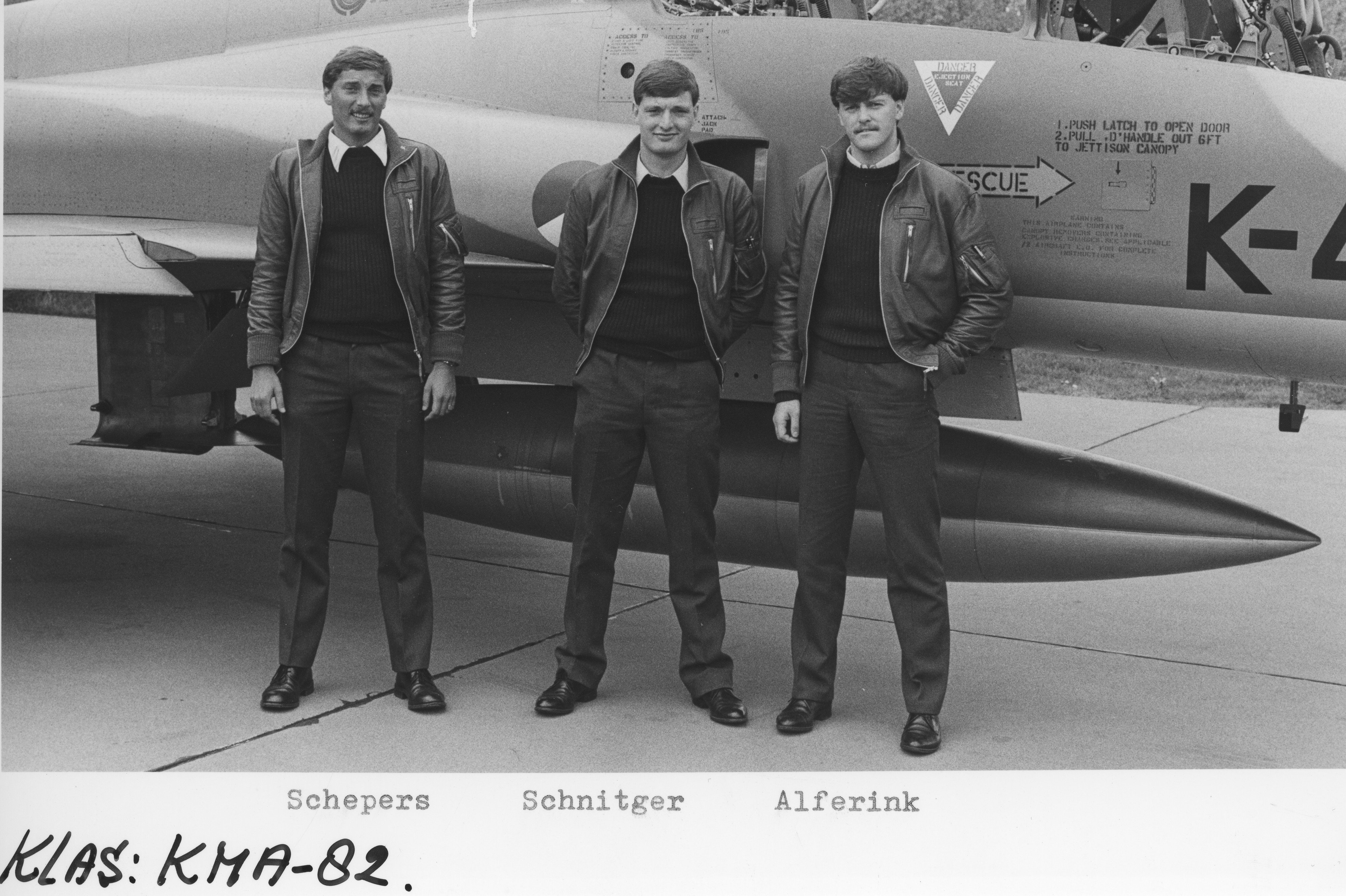 Pilots in flighttraining Schepers, the later Air Force commander Alexander Schnitger and Alferink pose in front of a Dutch Northrop NF-5B training aircraft at Twenthe Air Base.